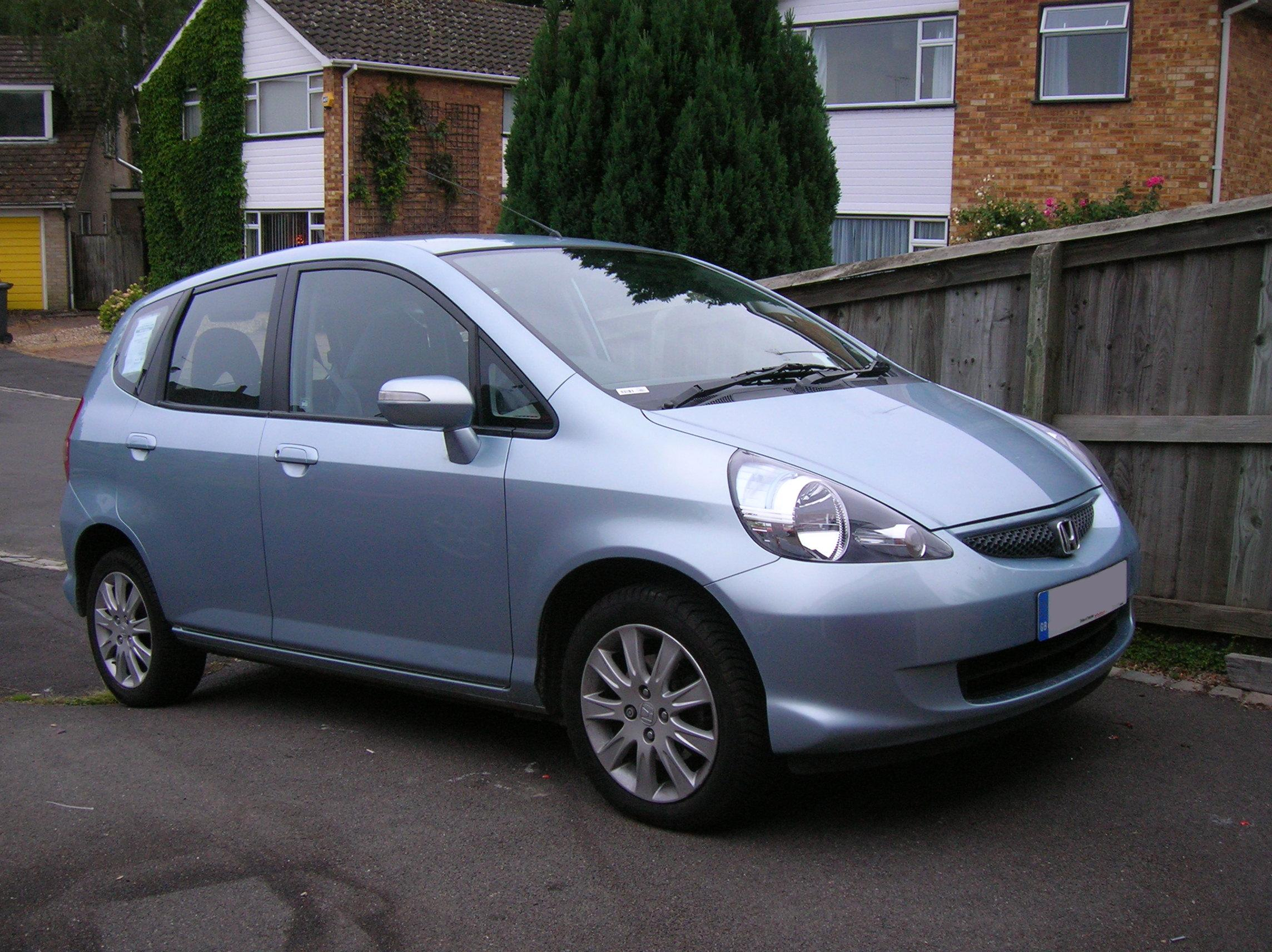 2005 Honda Jazz. My car, my camera, my picture.